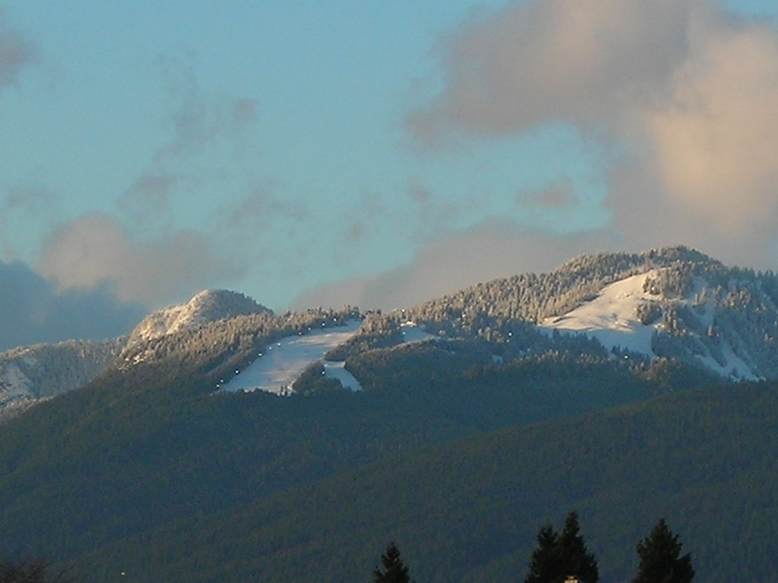 Close up view of Grouse Mountain's ski runs from Burnaby.